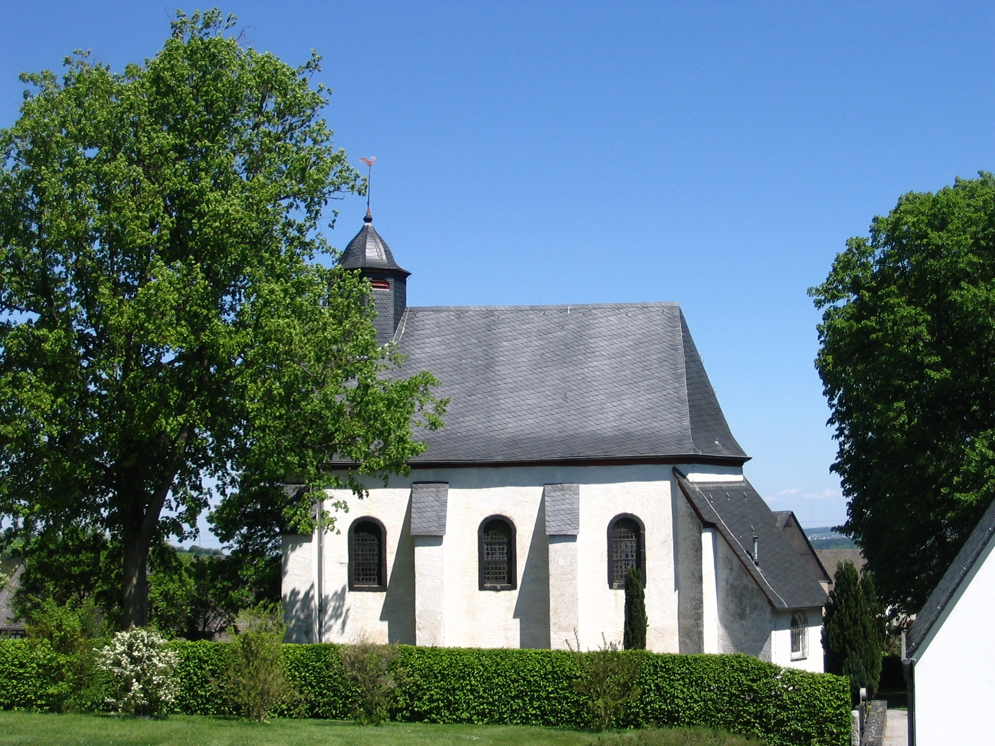 Chapel of the village Eveshausen in the Hunsrück landscape, Germany